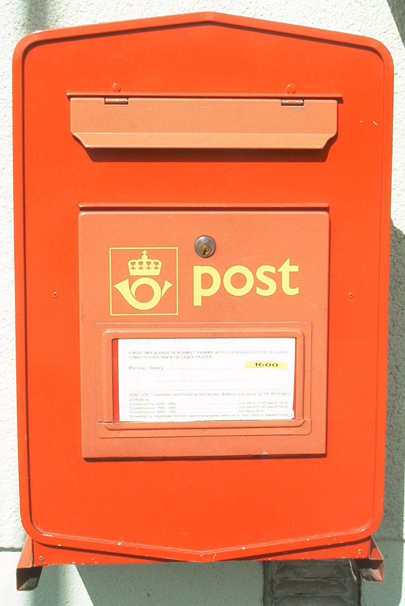 Red Norwegian Letter Box